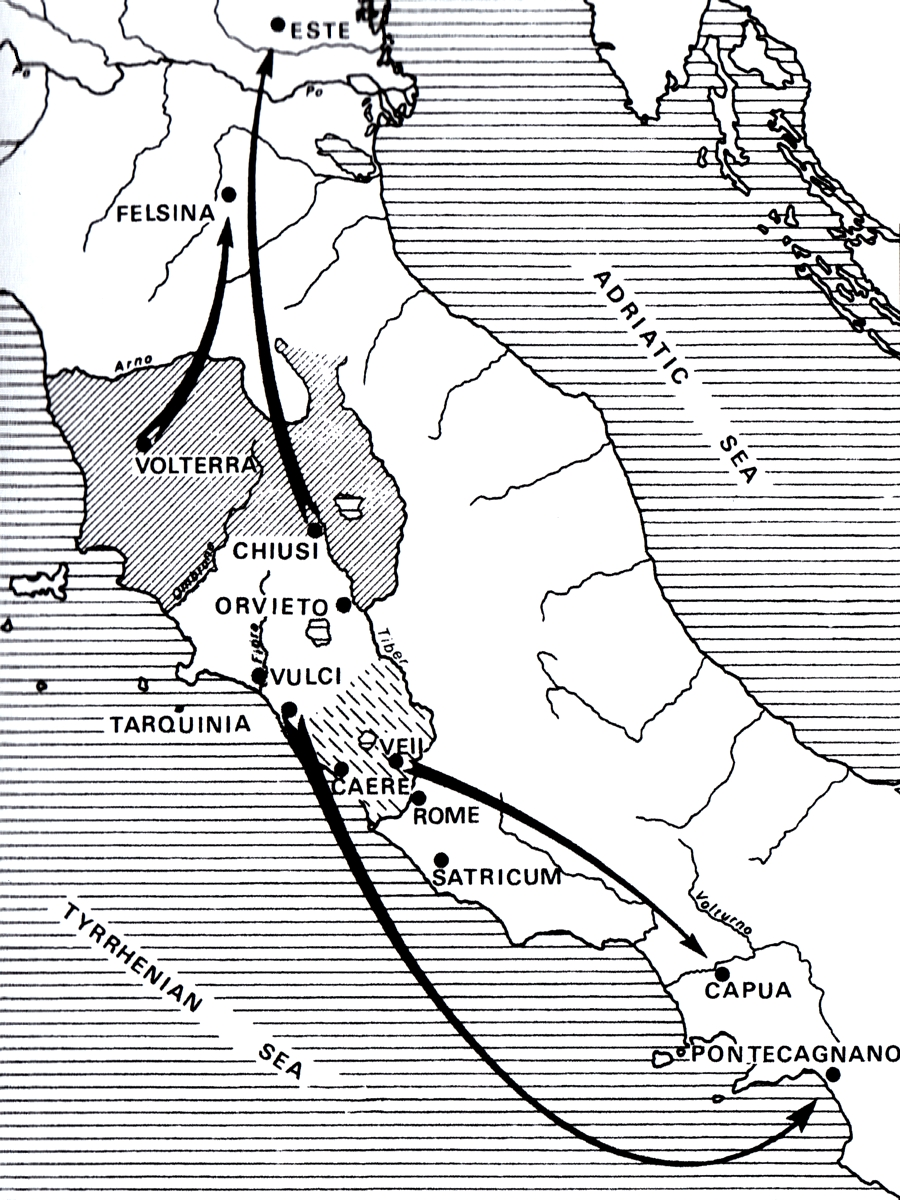 The spread of the Etruscan Alphabet in Italy. North Etruria: from Volterra, northward to Felsina. Central Etruria: from Chiusi, northward to Este. Southern Etruria: from Tarquinia and Veii southward to Pontecagnano and Capua.